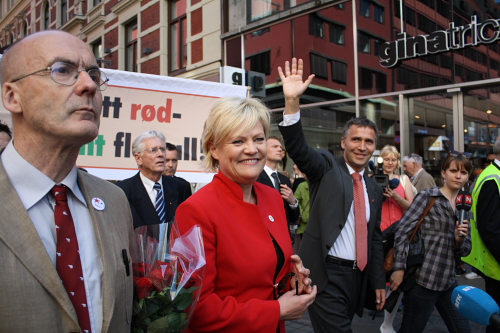 Prime minister Jens Stoltenberg, finance minister Kristin Halvorsen and politician Erling Folkvord leading the 1.may procession thru oslo